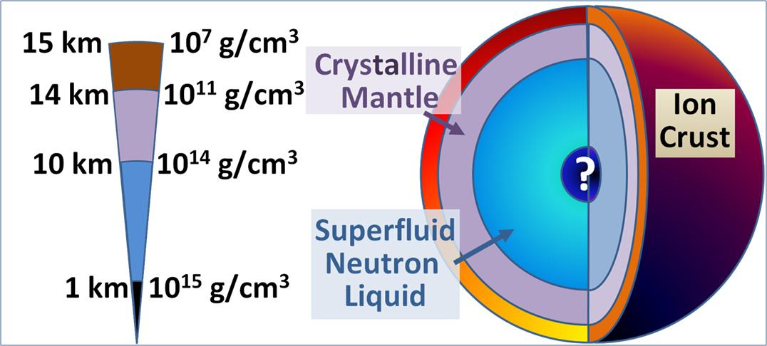 cross section of neutron star; Data from Jean-Pierre Luminet, Alison Bullough, Andrew King (1992) Black Holes, Cambridge University Press, p. p. 111, Figure 25 ISBN: 0521409063.